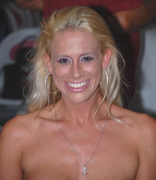 Kylie G. Worthy at Protecting Adult Welfare event, September 1, 2007